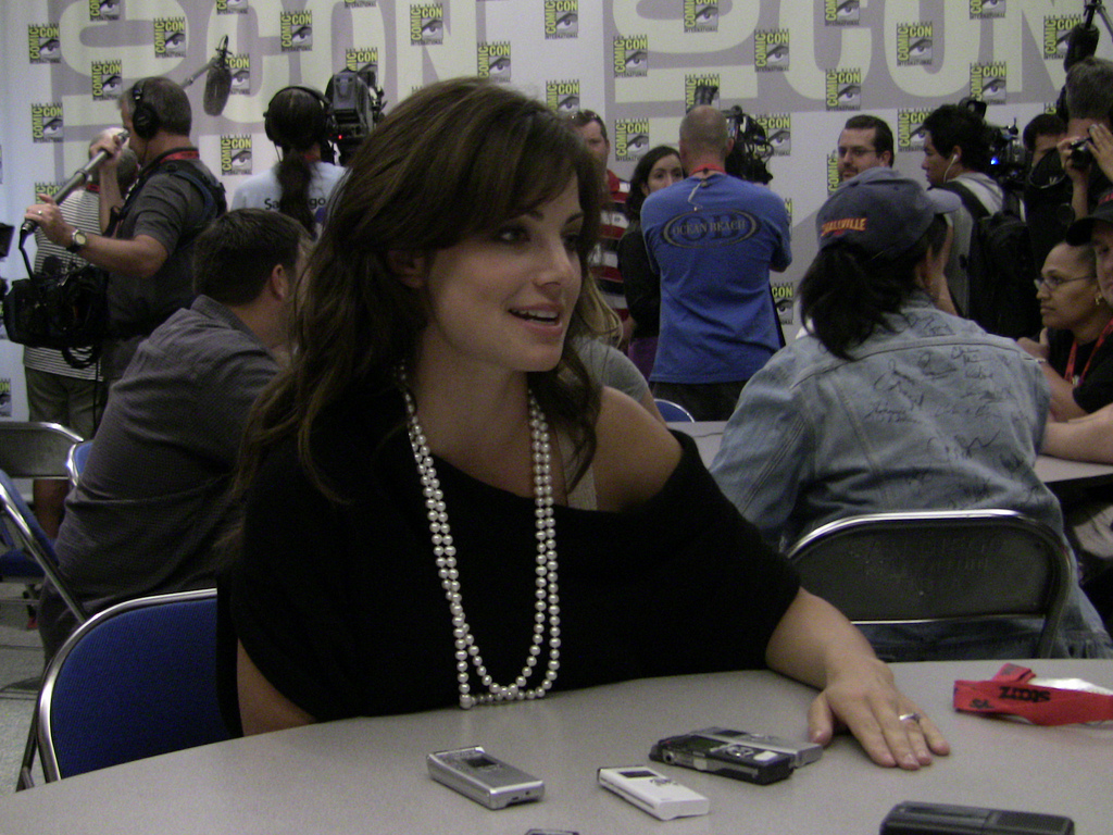 Comic-Con 2009 - Smallville - San Diego, Calif. - July 26, 2009